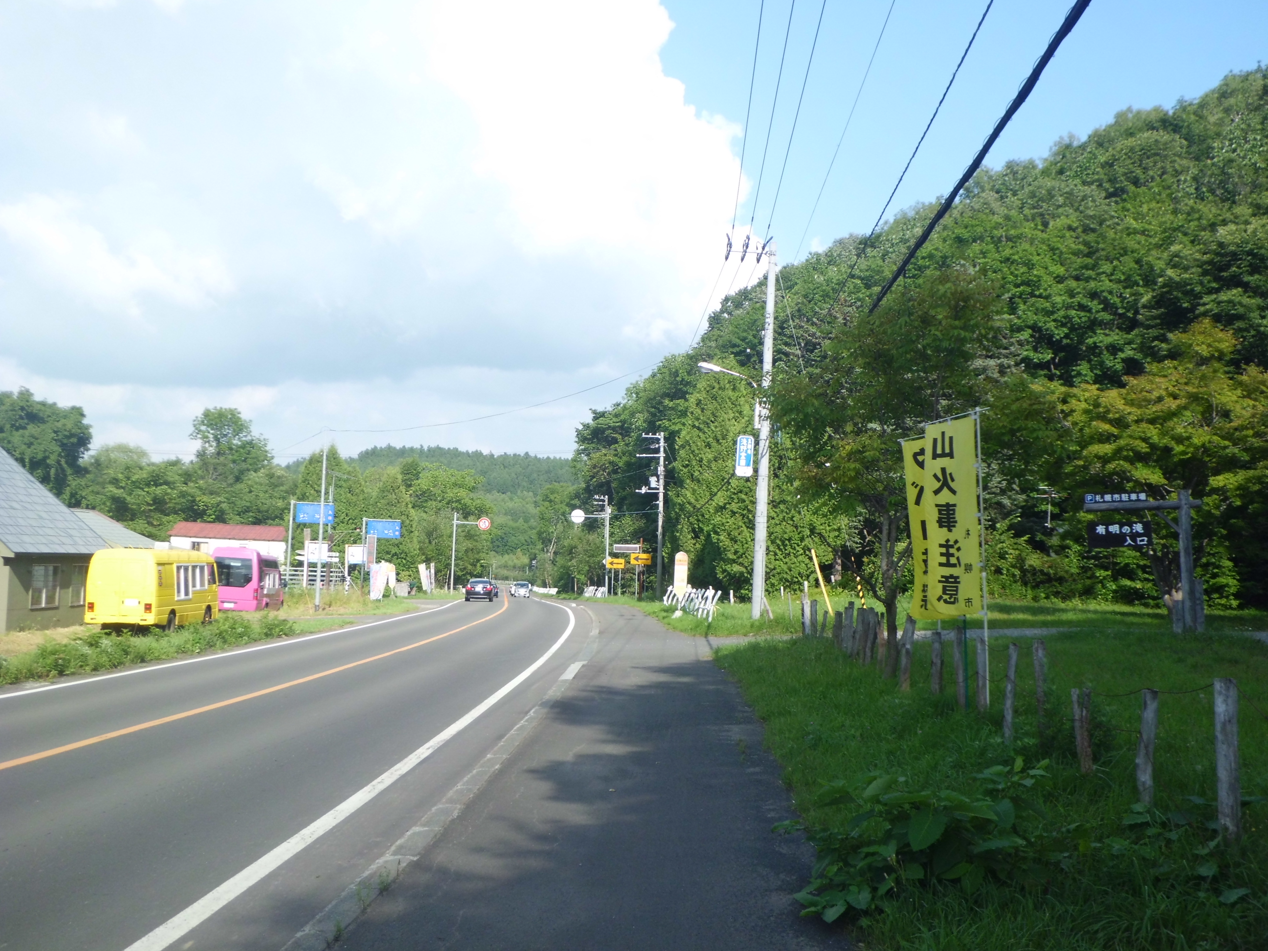 Entrance of Ariake Fall